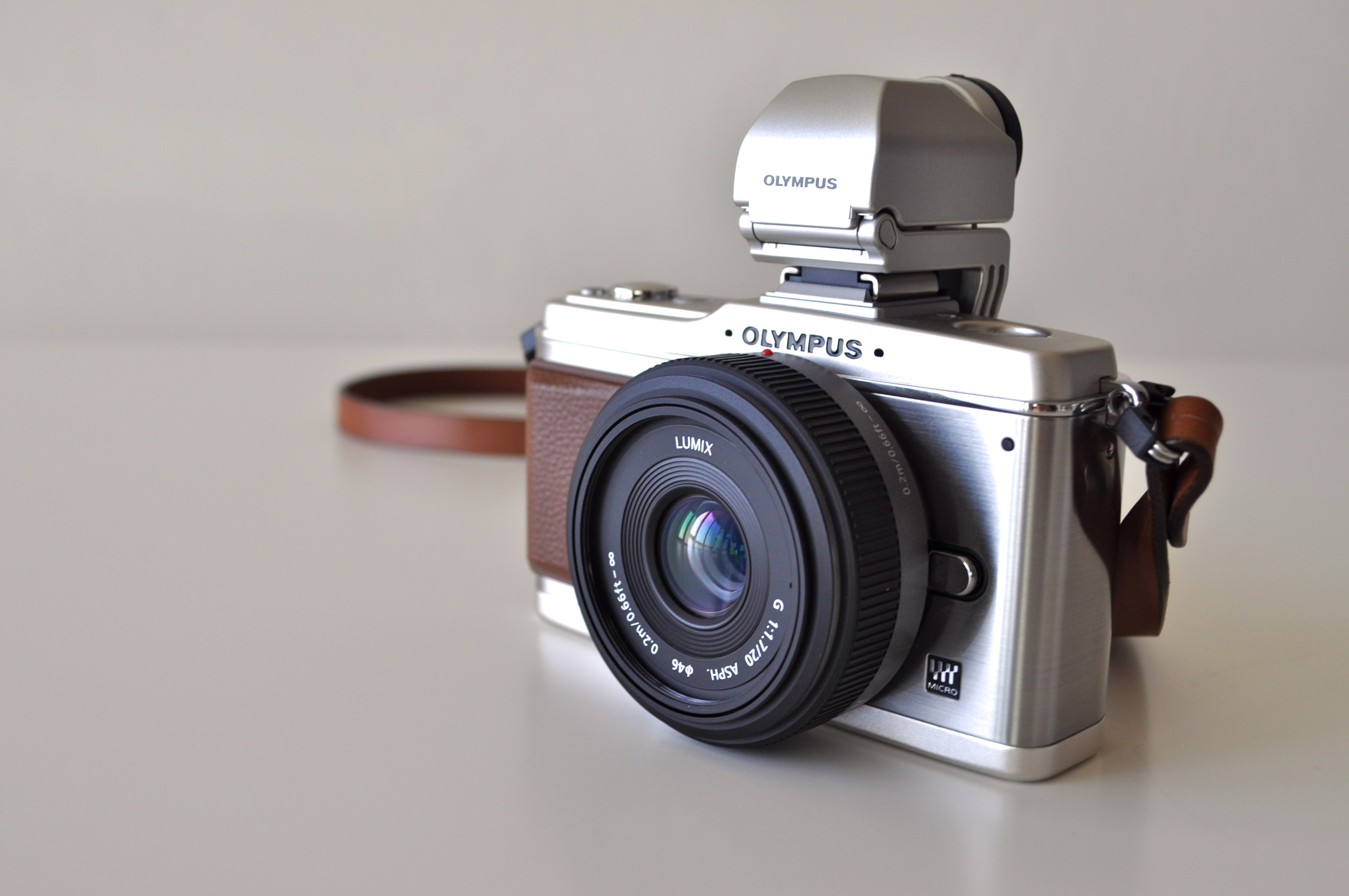 E-P2 with Panasonic LUMIX 20mm Pancake Lens